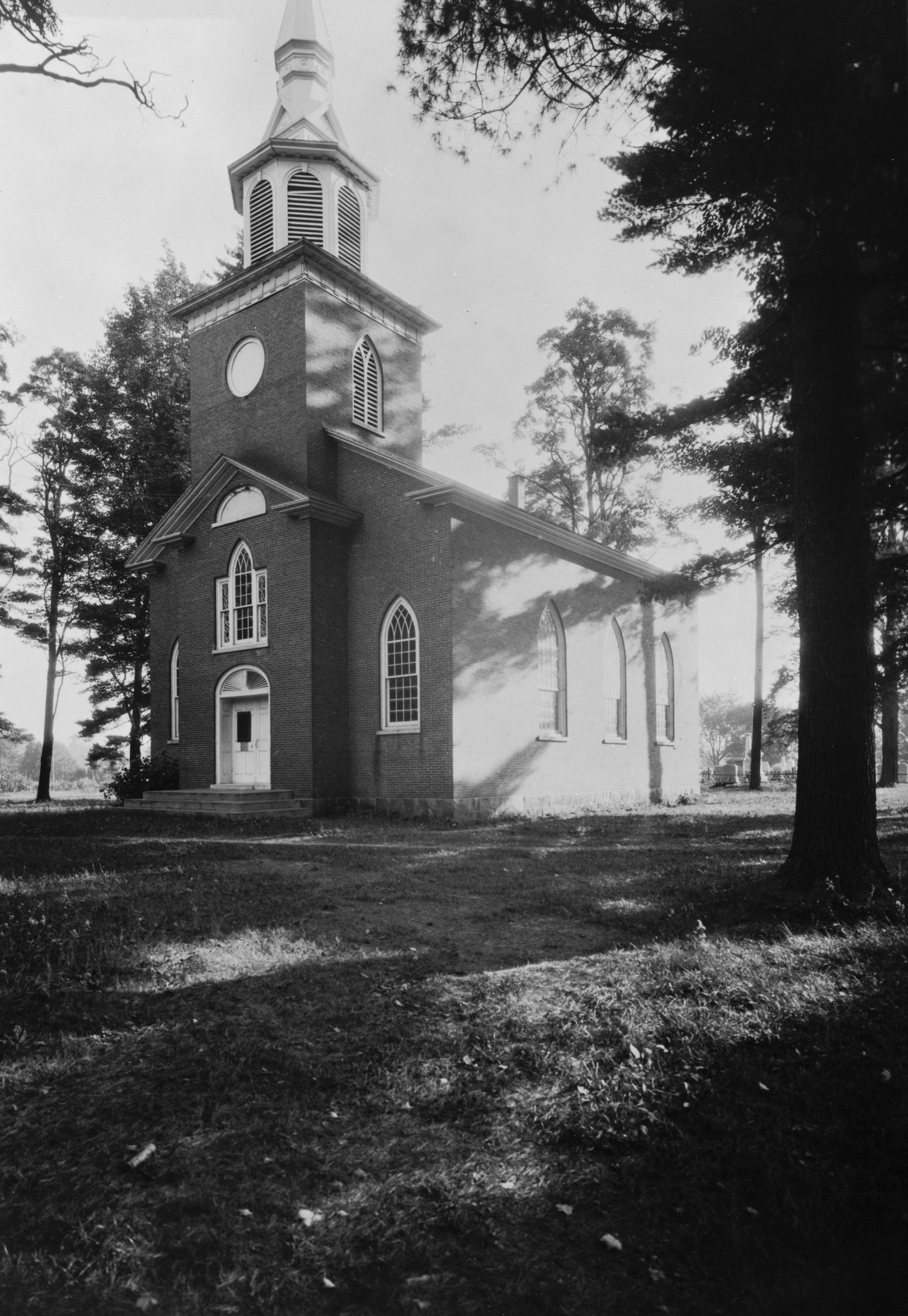 Front of St. John's Episcopal Church, located on the village green in Highgate Falls, Franklin County, Vermont, United States. Built in 1831, the Federal style church is listed on the National Register of Historic Places.